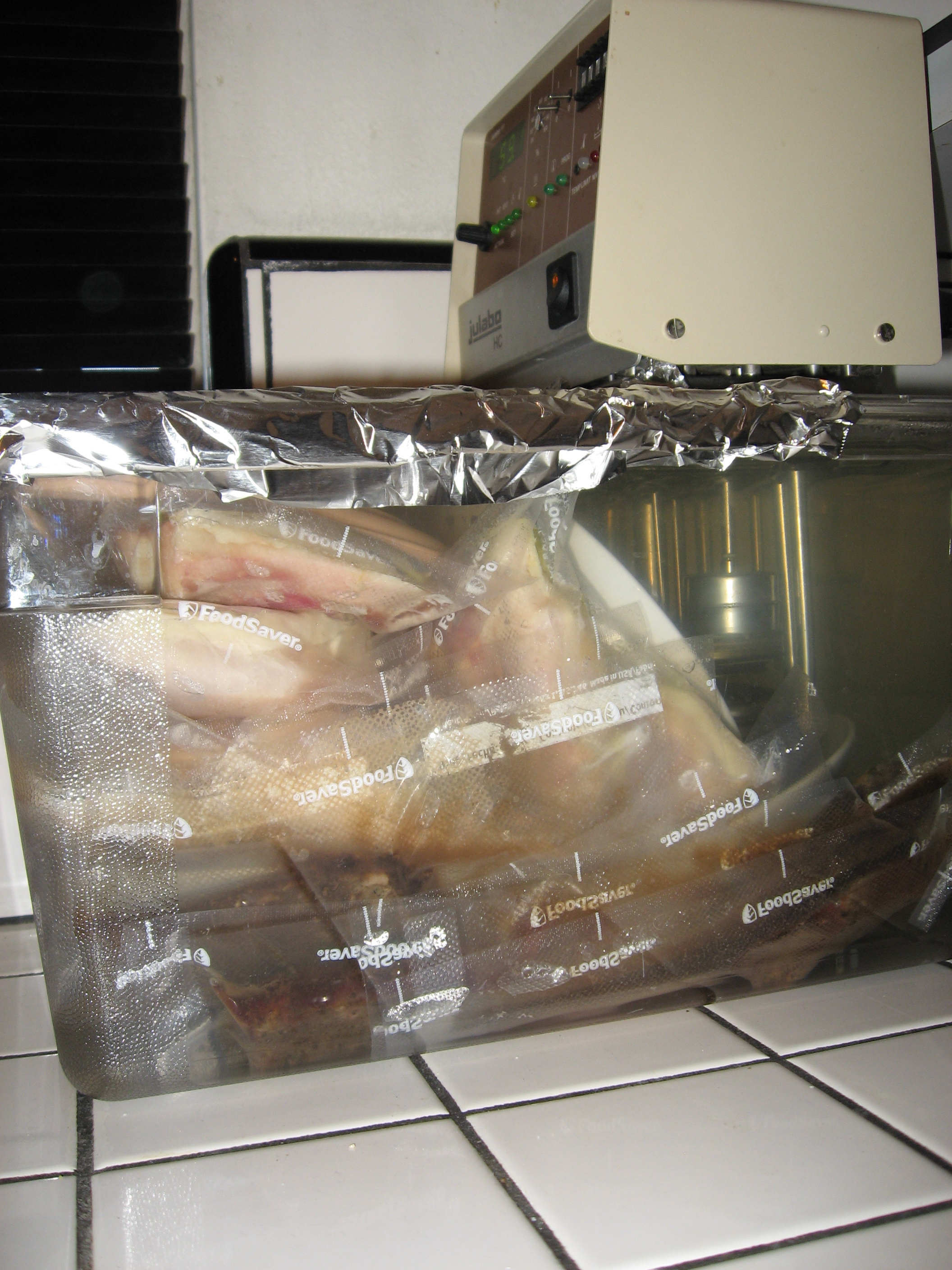 Vacuum food preparation